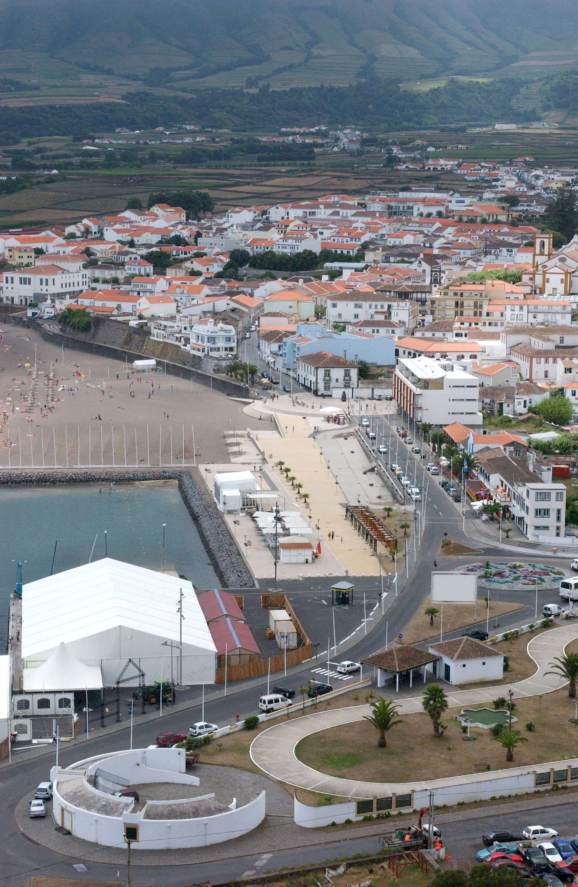 Terceira-Island - Praia da Vitoria - A view from above shows the site of Praia Fest 2006, which kicks off here Aug. 4, 2006